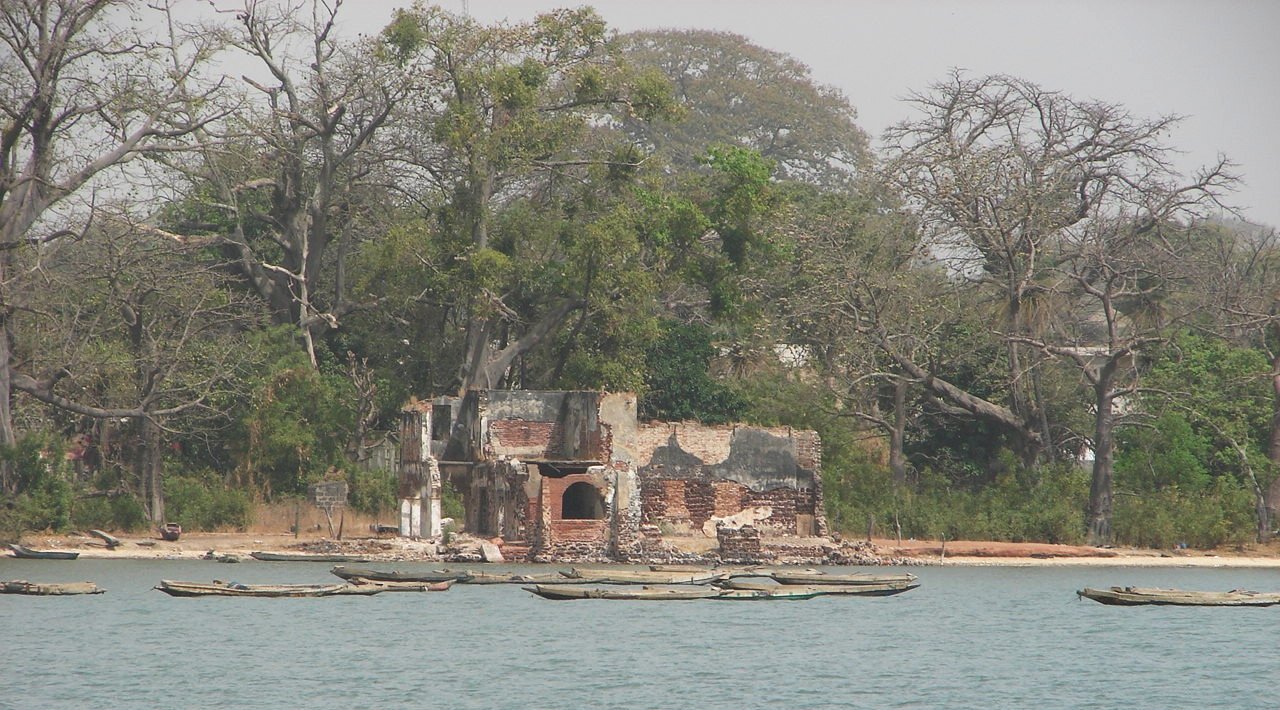 CFAO Building, Albreda, Gambia